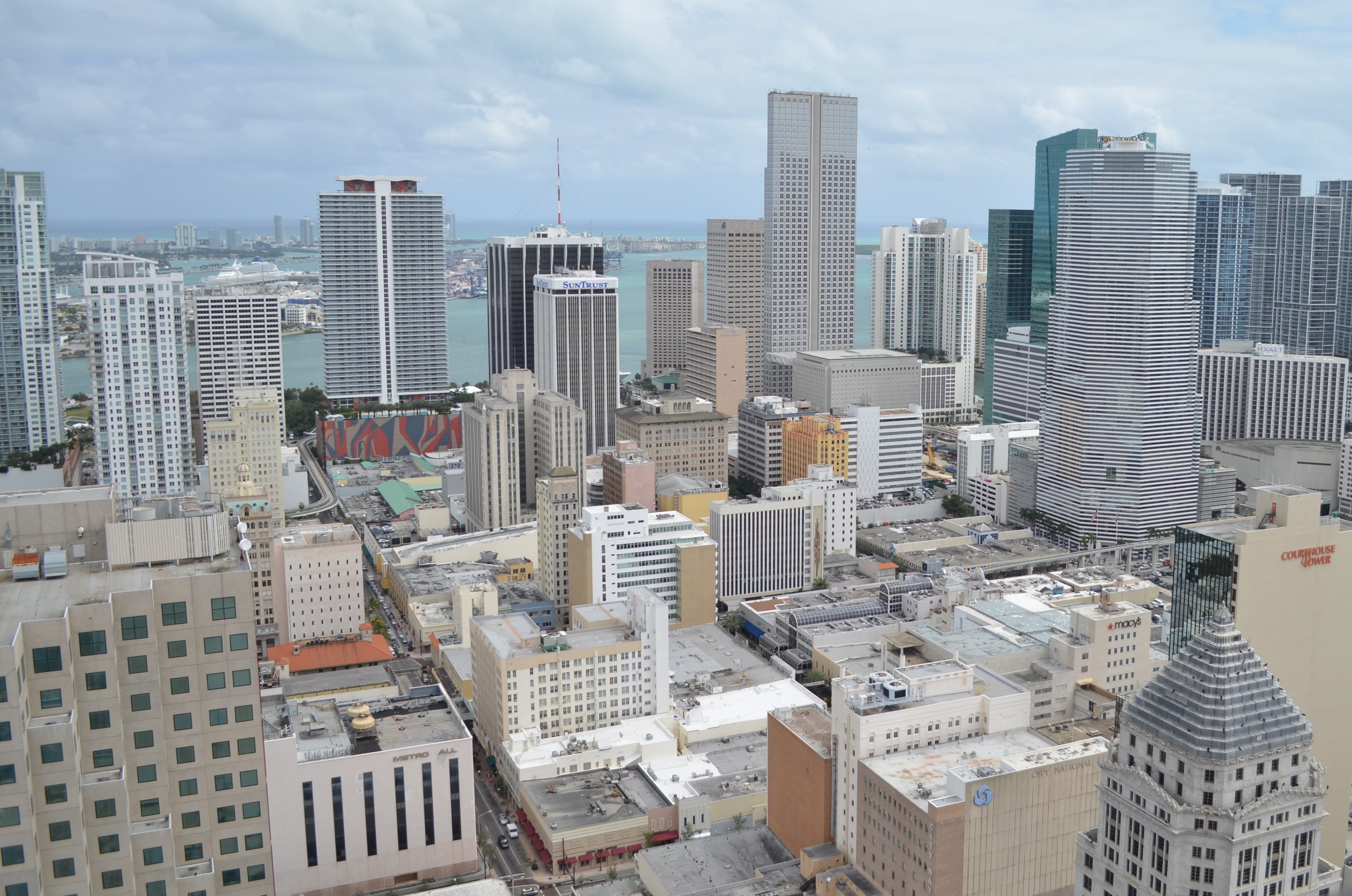 The traditional central business district of Downtown Miami, a term which has evolved to refer to the "Greater Downtown" area of at least three distinct neighborhoods (downtown, Brickell, Edgewater).